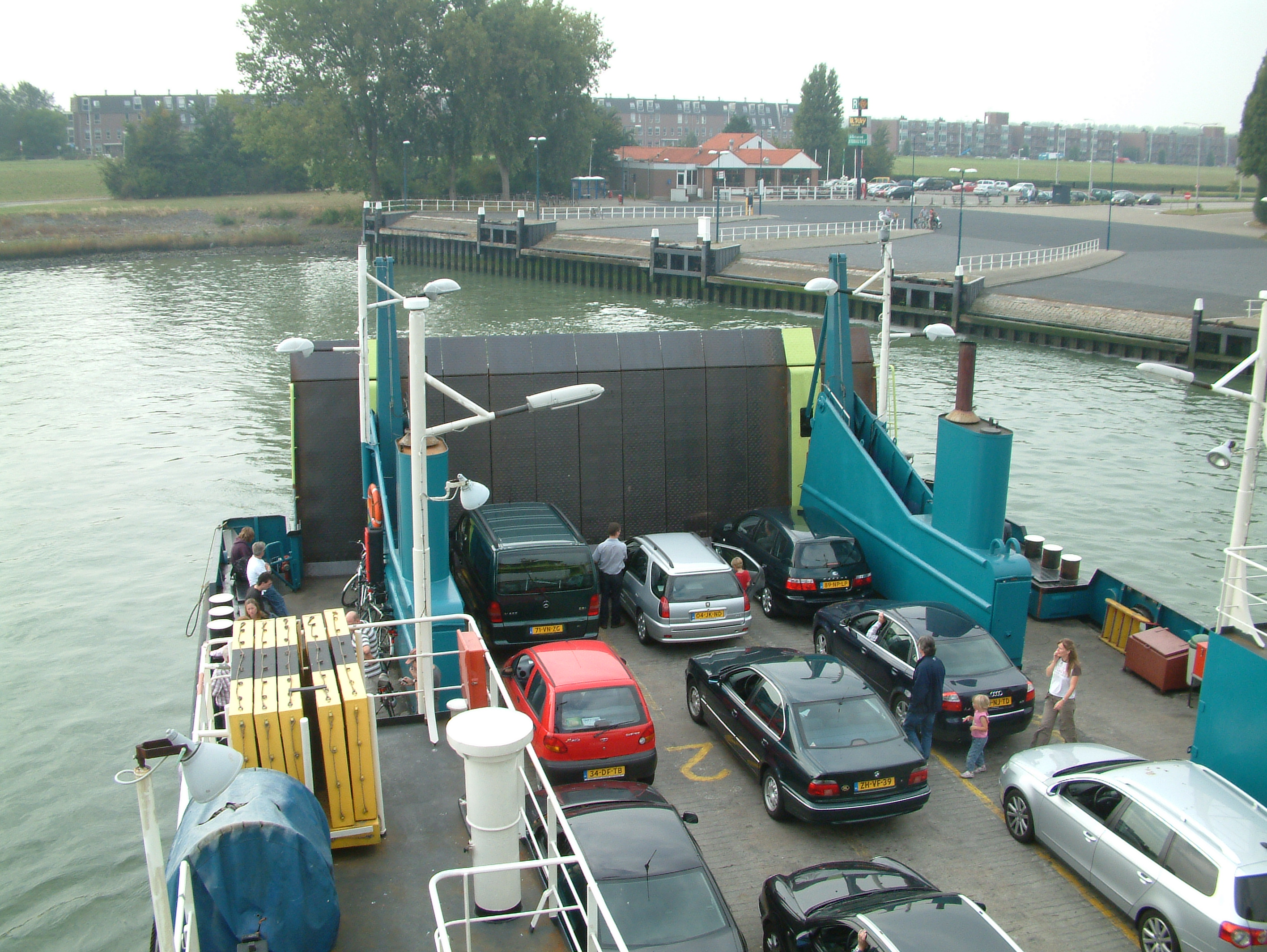 Ferry Blankenburg between Rozenburg and Maassluis